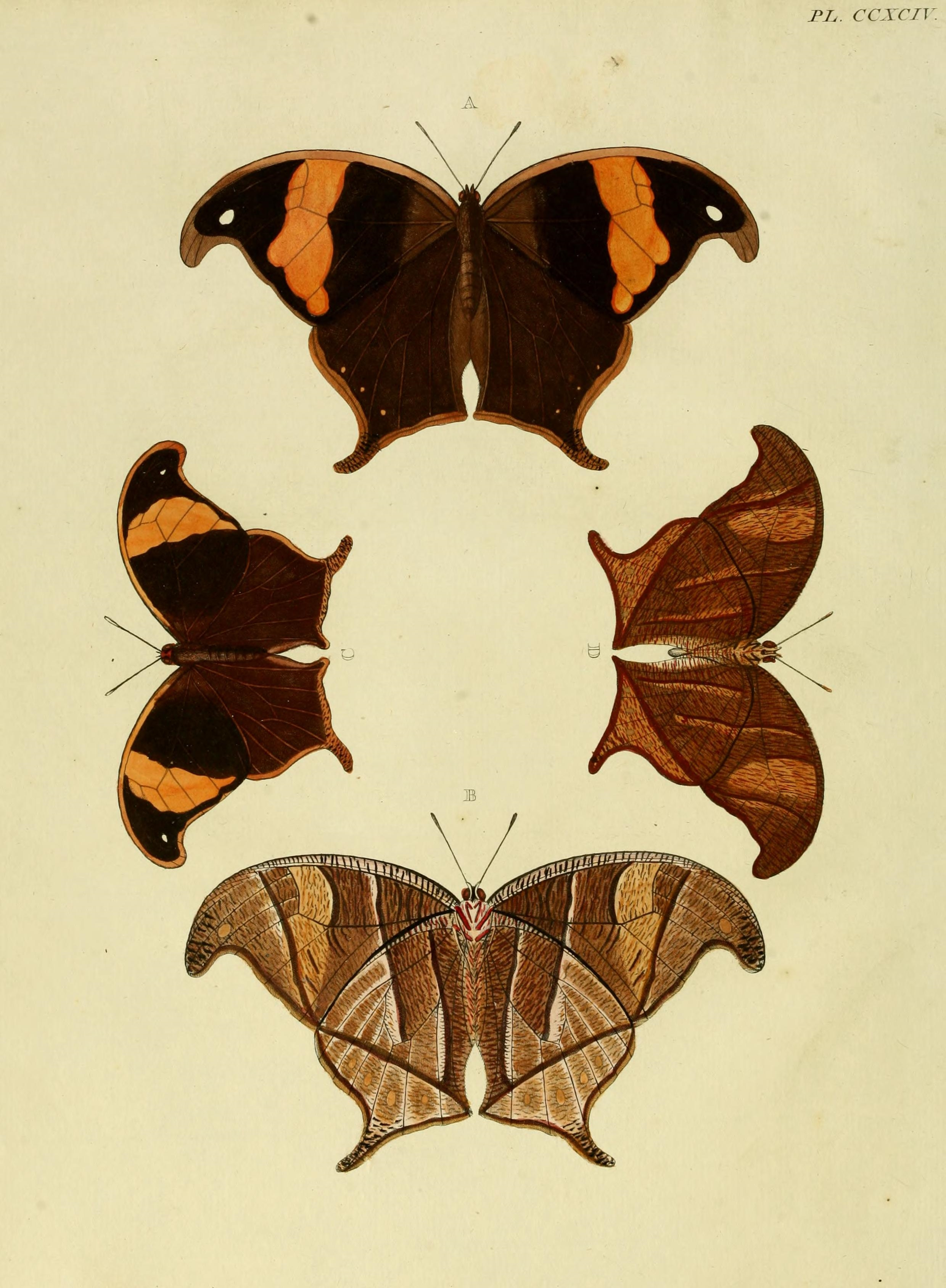 Plate CCXCIV Warning: some taxa/names may be misidentified/misapplied or placed in a different genus. A, B (♀), C, D (♂): "(Papilio) Arcesilaus" ( = Caerois chorinaeus chorinaeus (Fabricius, 1775), see Funet). Photos at The Linnean Collections and Butterflies of America.